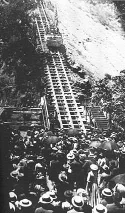 ©Mike Manning